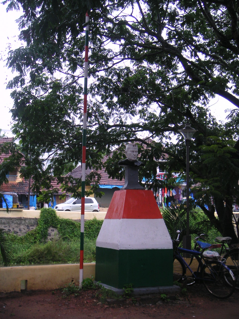 Indian National Congress monument of Jawaharlal Nehru, in Allepey, Kerala.